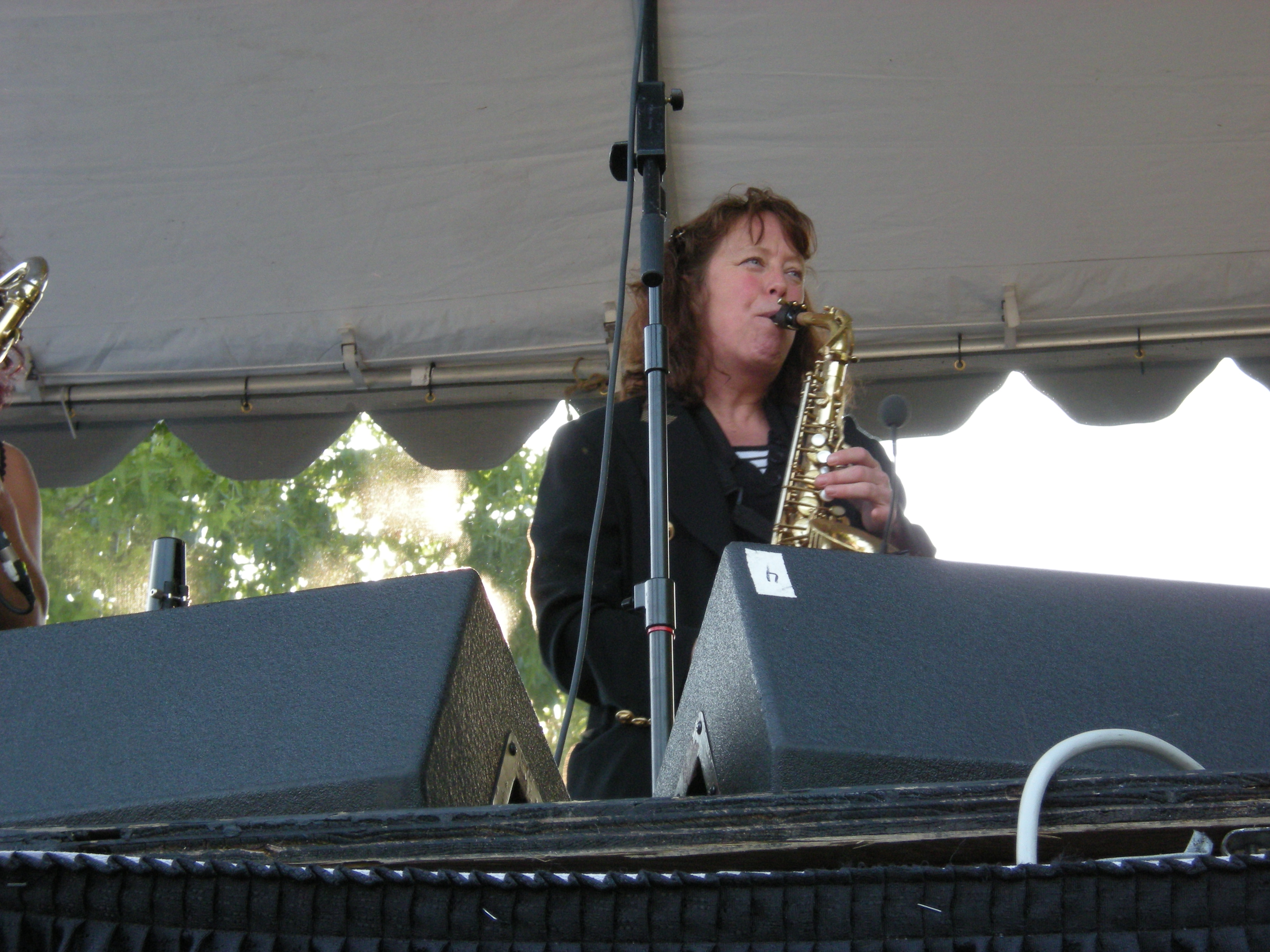 Amy Denio performing with the Billy Tipton Memorial Saxophone Quartet performing at Bumbershoot 2008, Seattle Center, Seattle, Washington.